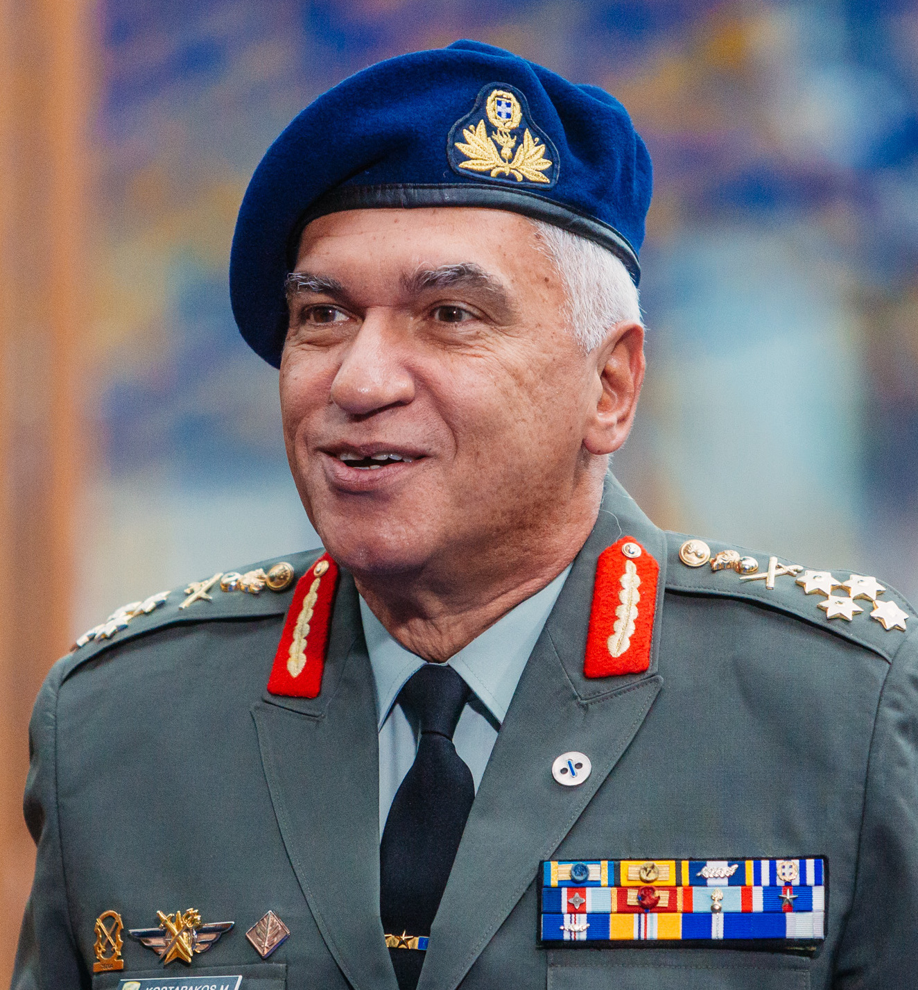 Michail Kostarakos, Chairman, European Union Military Committee, CEUMC Photo: Arno Mikkor (EU2017EE)